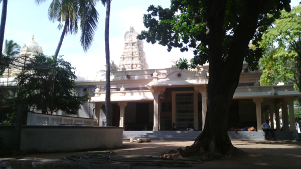 Ramanashramam , Tiruvannamalai, TN